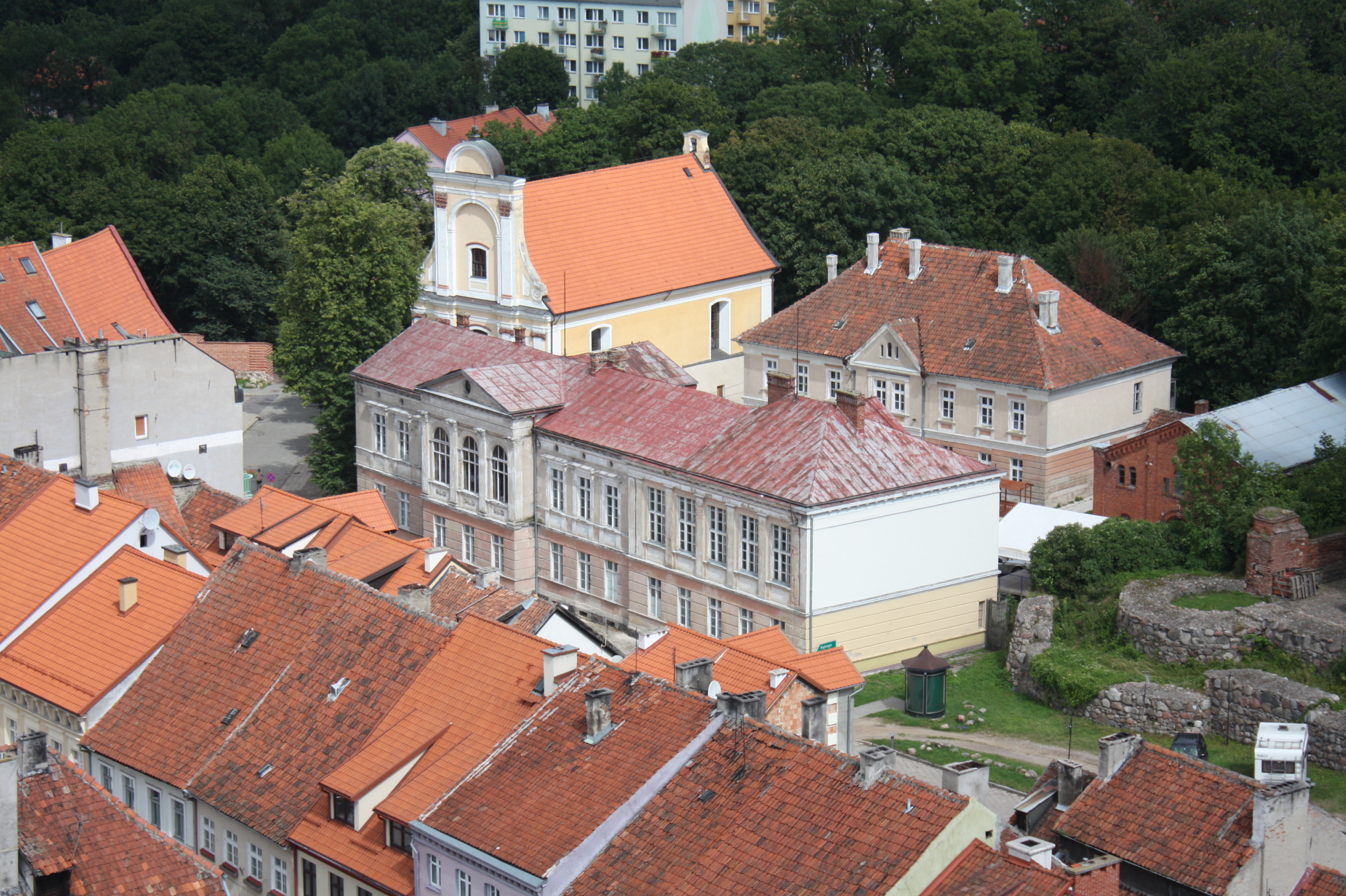 This photo of Warmian-Masurian Voivodeship was taken during Wikiexpedition 2012 set up by Wikimedia Polska Association.You can see all photographs in category Wikiekspedycja 2012. The making of this document was supported by Wikimedia Polska.